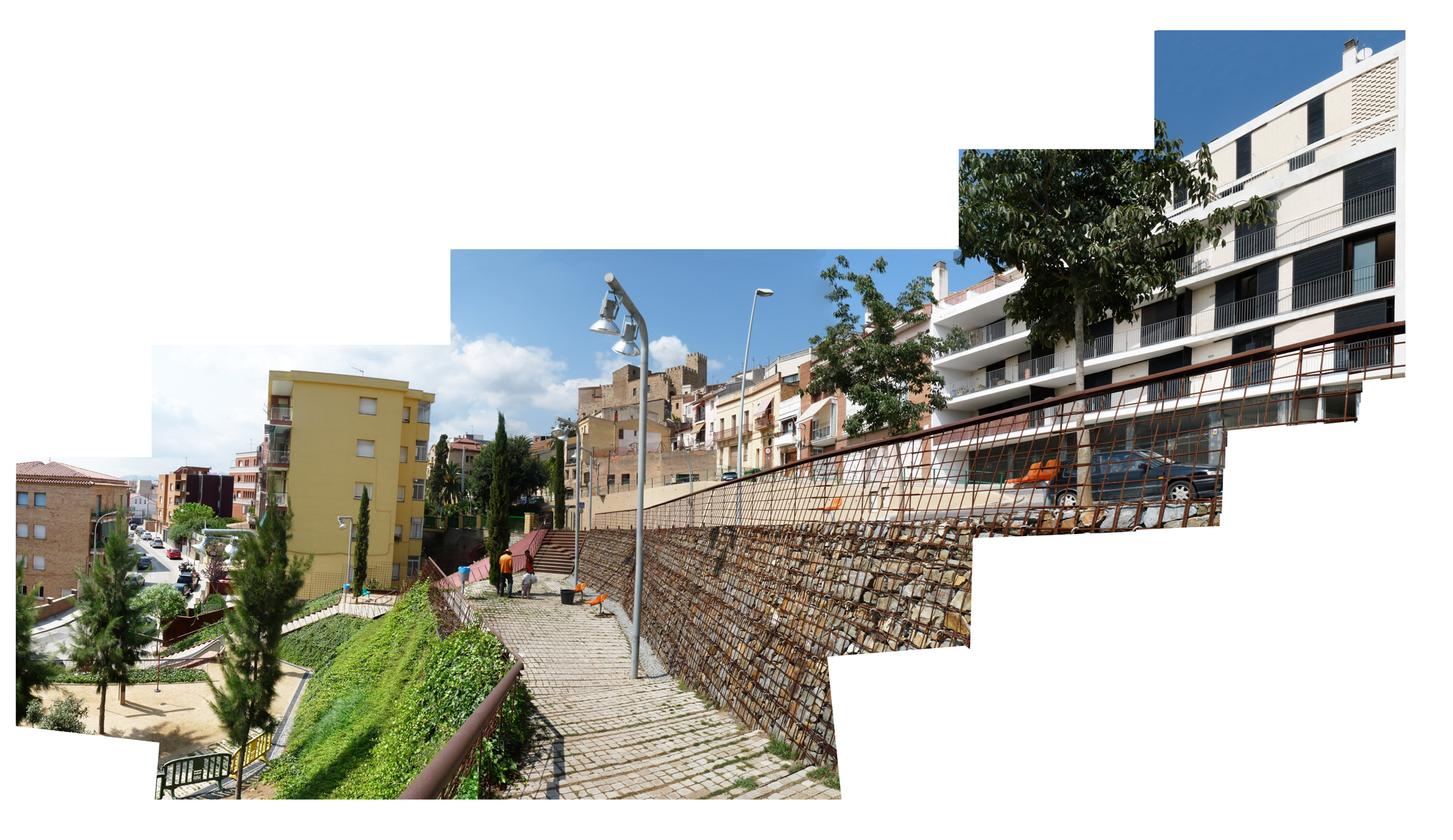 View of the city and castle of Papiol.